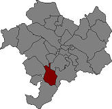 Location of Santa Margarida i els Monjos in Alt Penedès